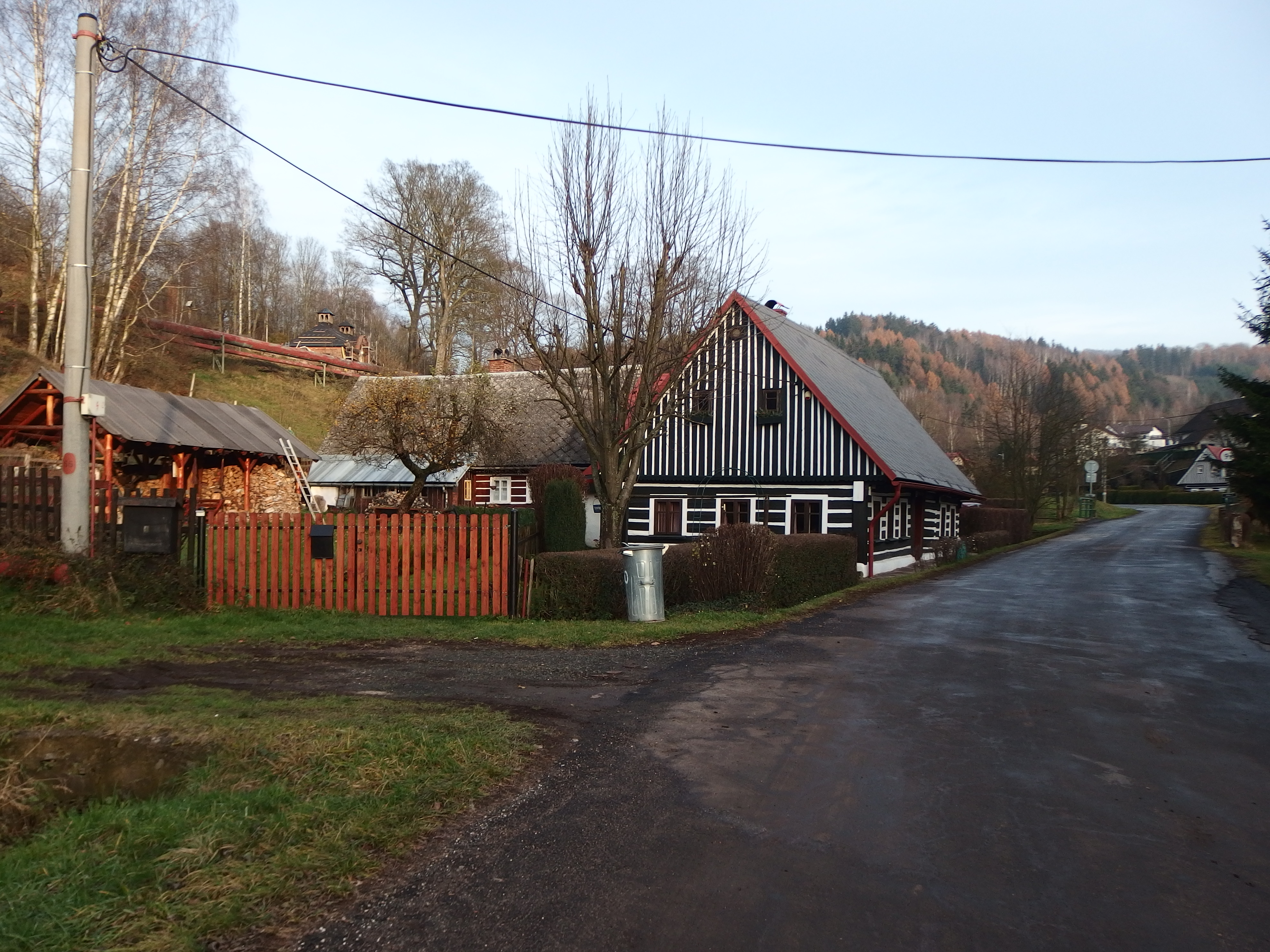 Trutnov, Czech Republic, part Lhota.